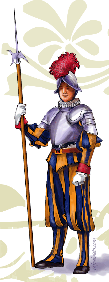 Papal Swiss Guards in uniform